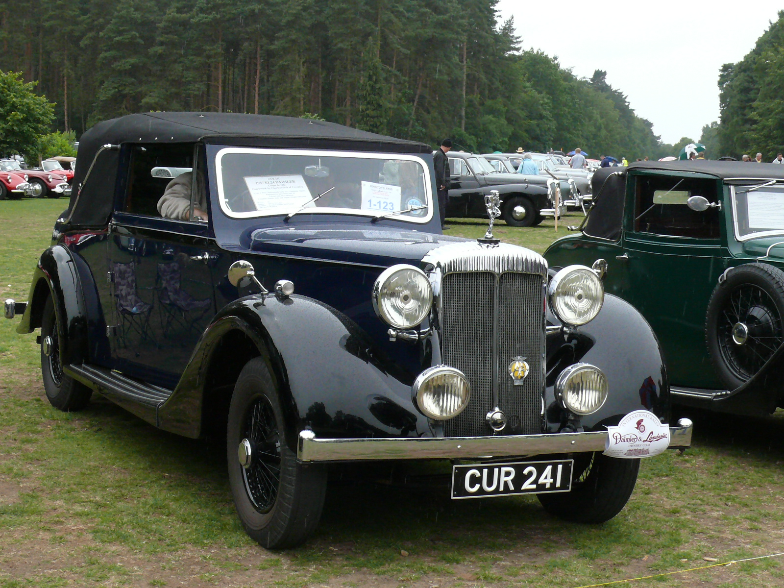 Daimler EL24 drophead coupé [CUR 241] Daimler & Lanchester Owners Club, International Rally, Queen's Birthday weekend, Sandringham, Norfolk Sunday 12 June 2011 (DVLA) 3418cc, reg 2 April 1937